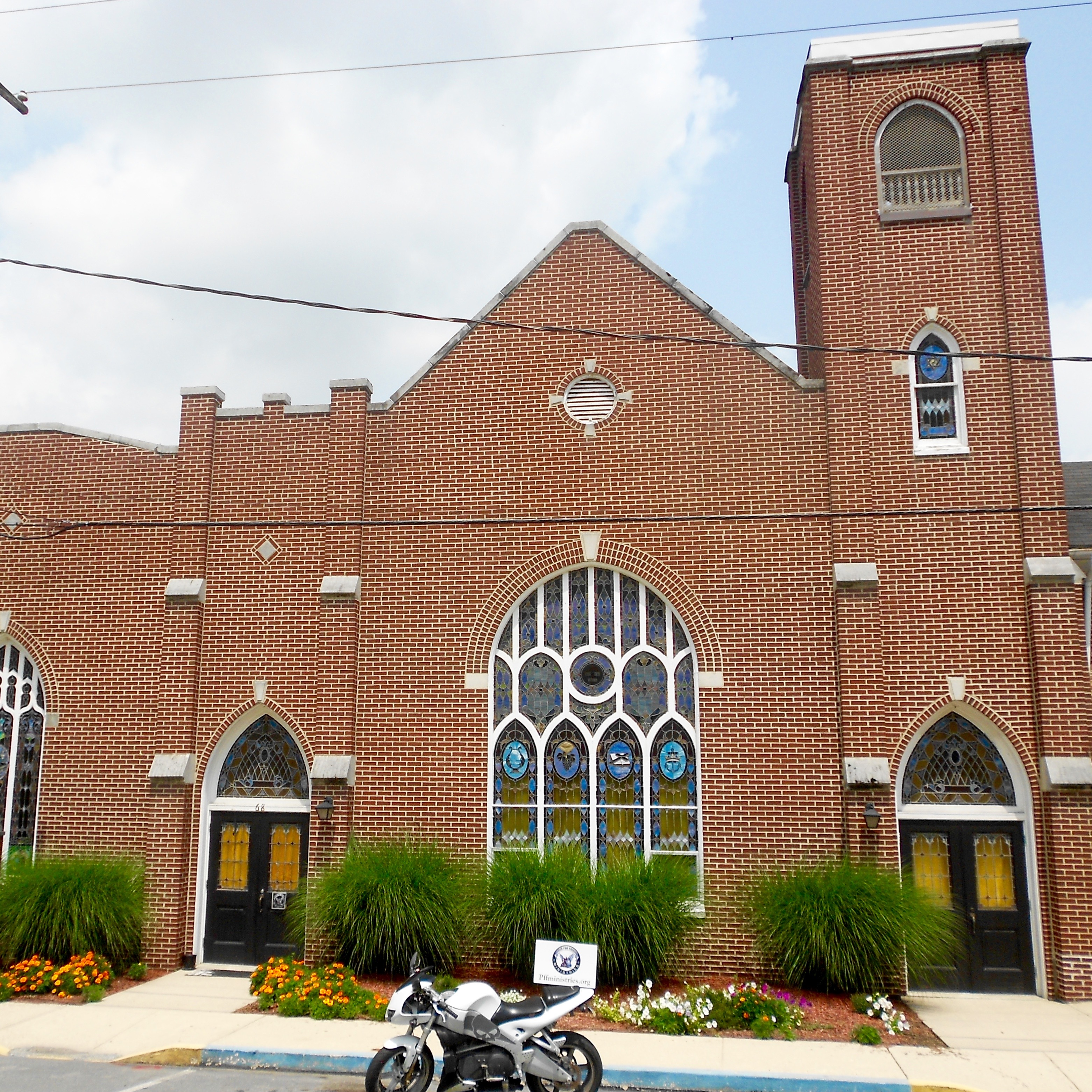 PFF church (one of a kind) in the borough of Windsor, York County, Pennsylvania